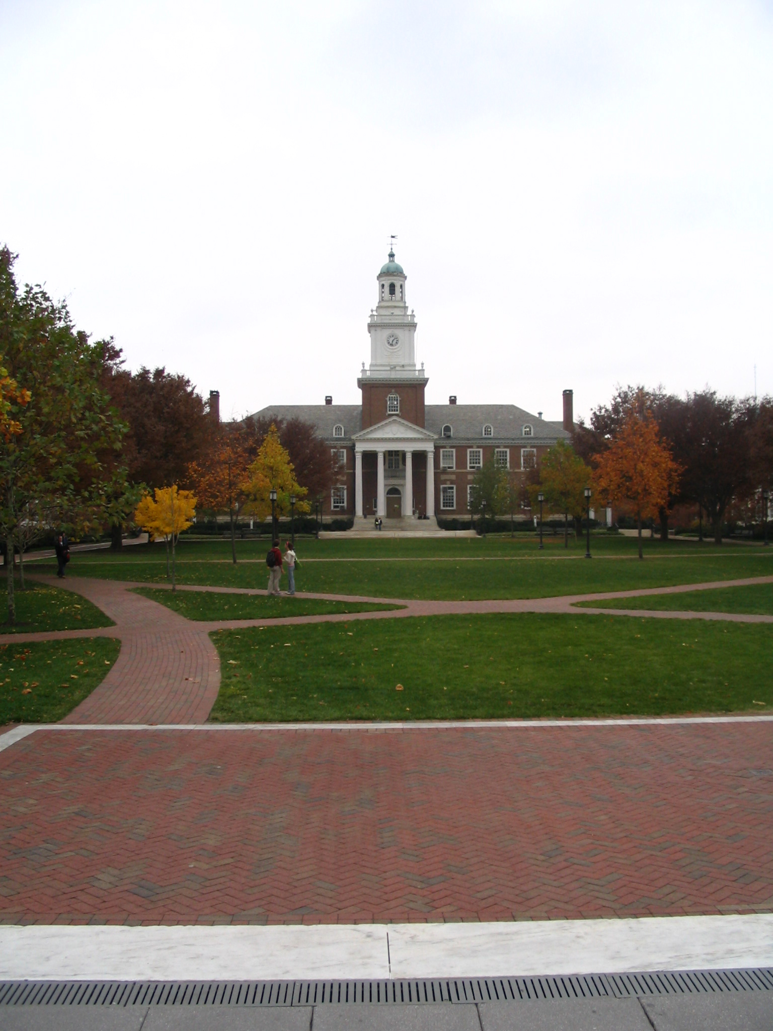 Gilman Hall on Johns Hopkins University's Homewood campus. Photo taken by Jfruh.